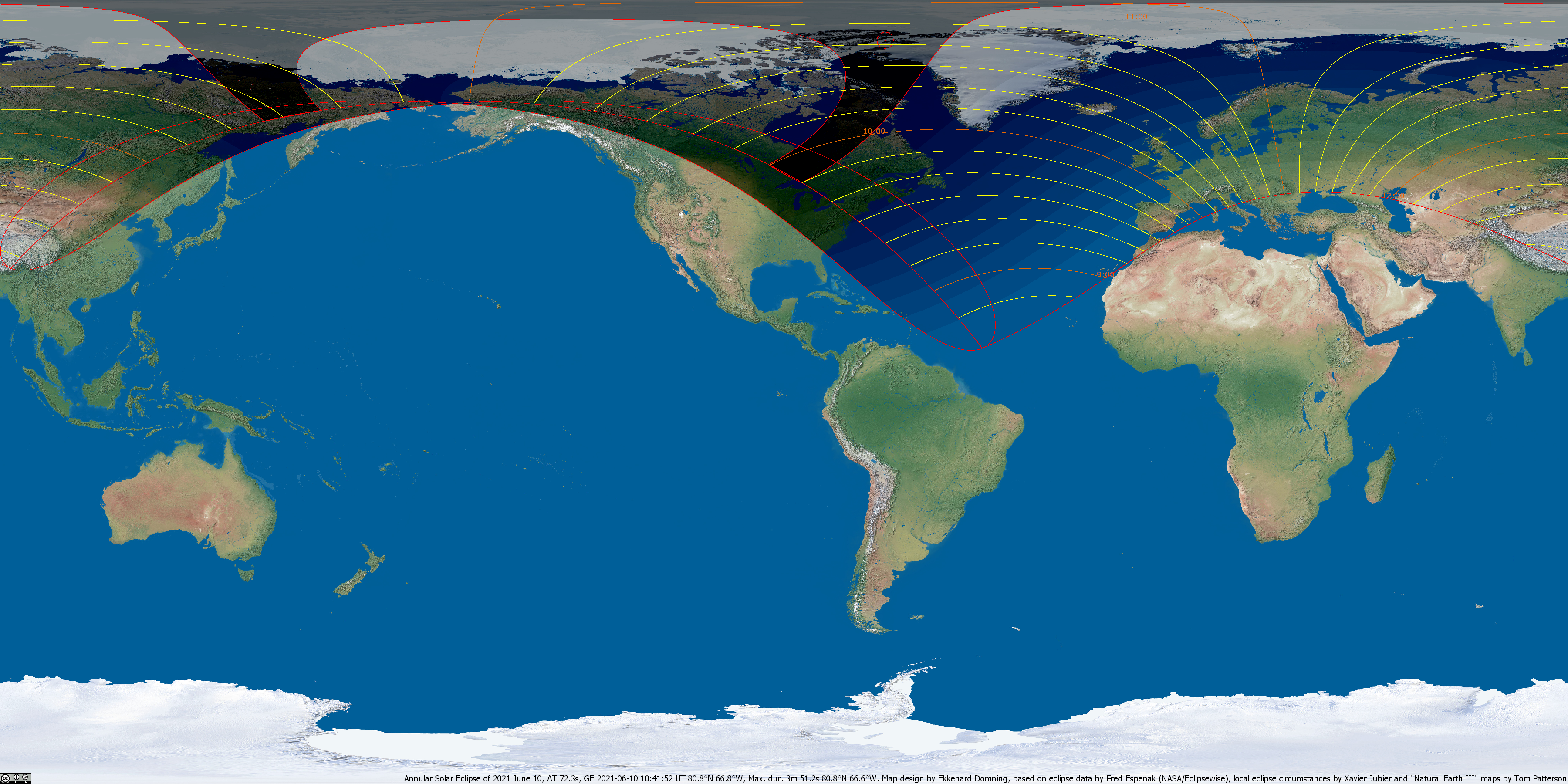 Global map of the Solar eclipse of June 10, 2021. Scale 1° = 10px